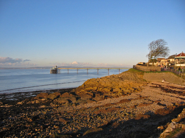 Rock and shingle shore Salthouse Bay Clevedon. View from the sea wall towards the pier.